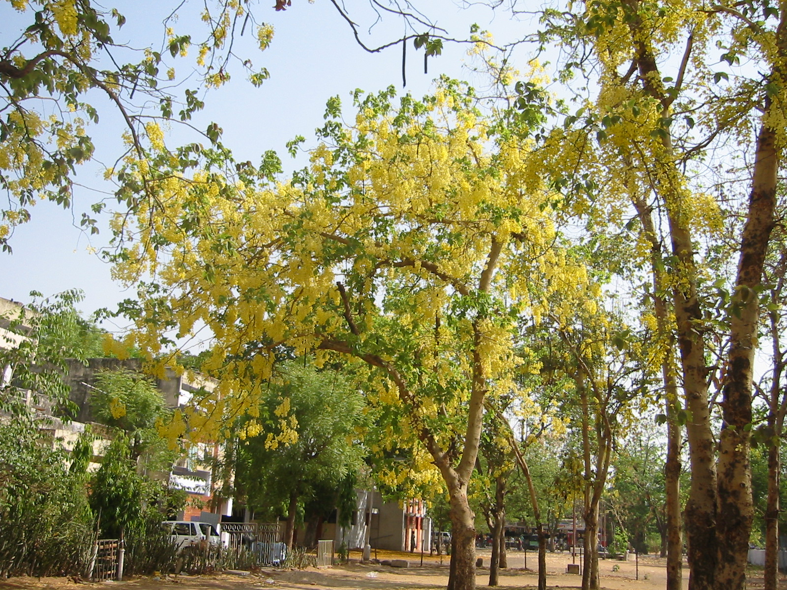 Golden Shower Tree (Amaltas), in blossom at Ahmedabad, India.